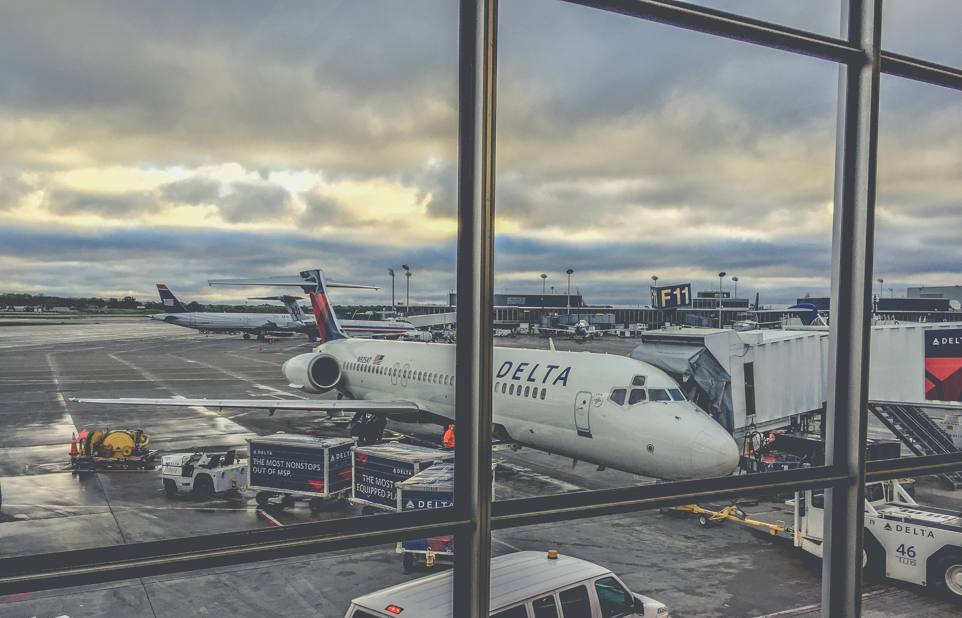 N925AT at Minneapolis-St. Paul International Airport.